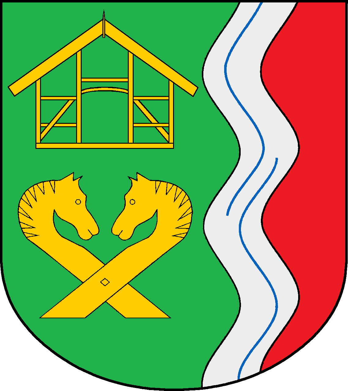 Coat of arms of the municipality Niendorf bei Berkenthin in Schleswig-Holstein, Germany.